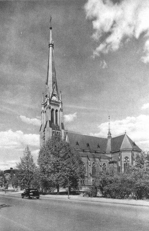 The Lutheran Cathedral of Vyborg. Built in 1893, destroyed in 1940.